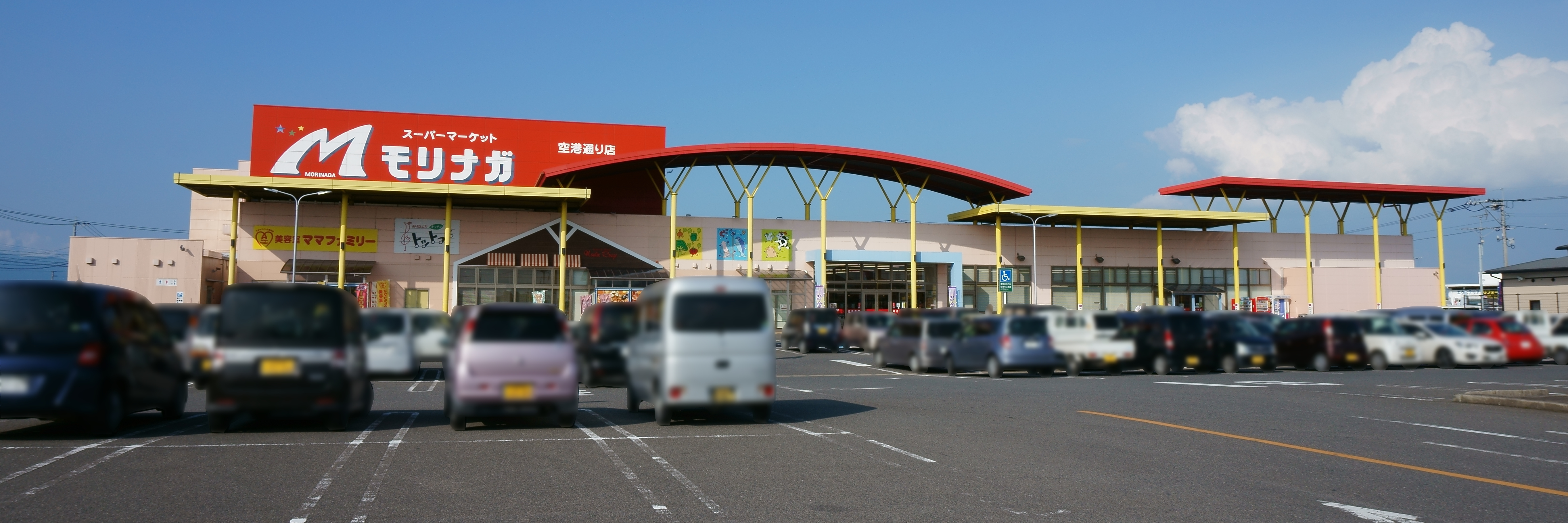 Super Morinaga Kuko-dori store, a supermarket in Kawasoe, Saga city, Saga prefecture.